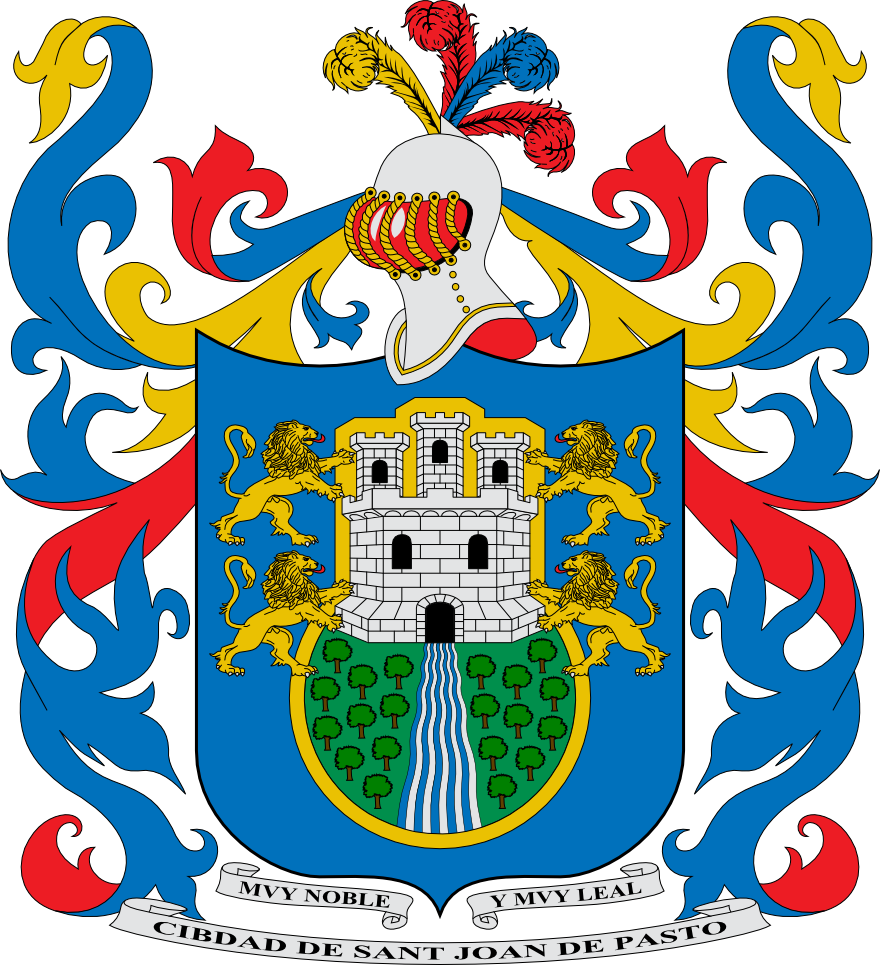 Coat of arms of San Juan de Pasto.